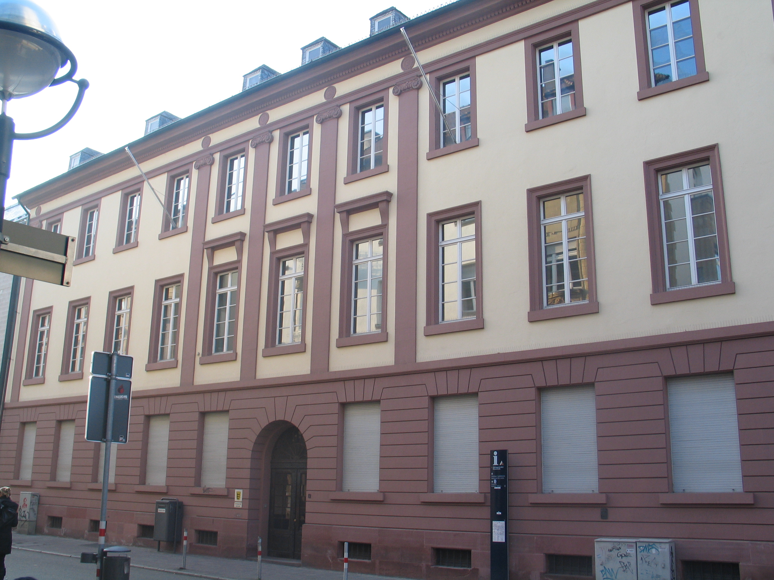 Labor court Karlsruhe